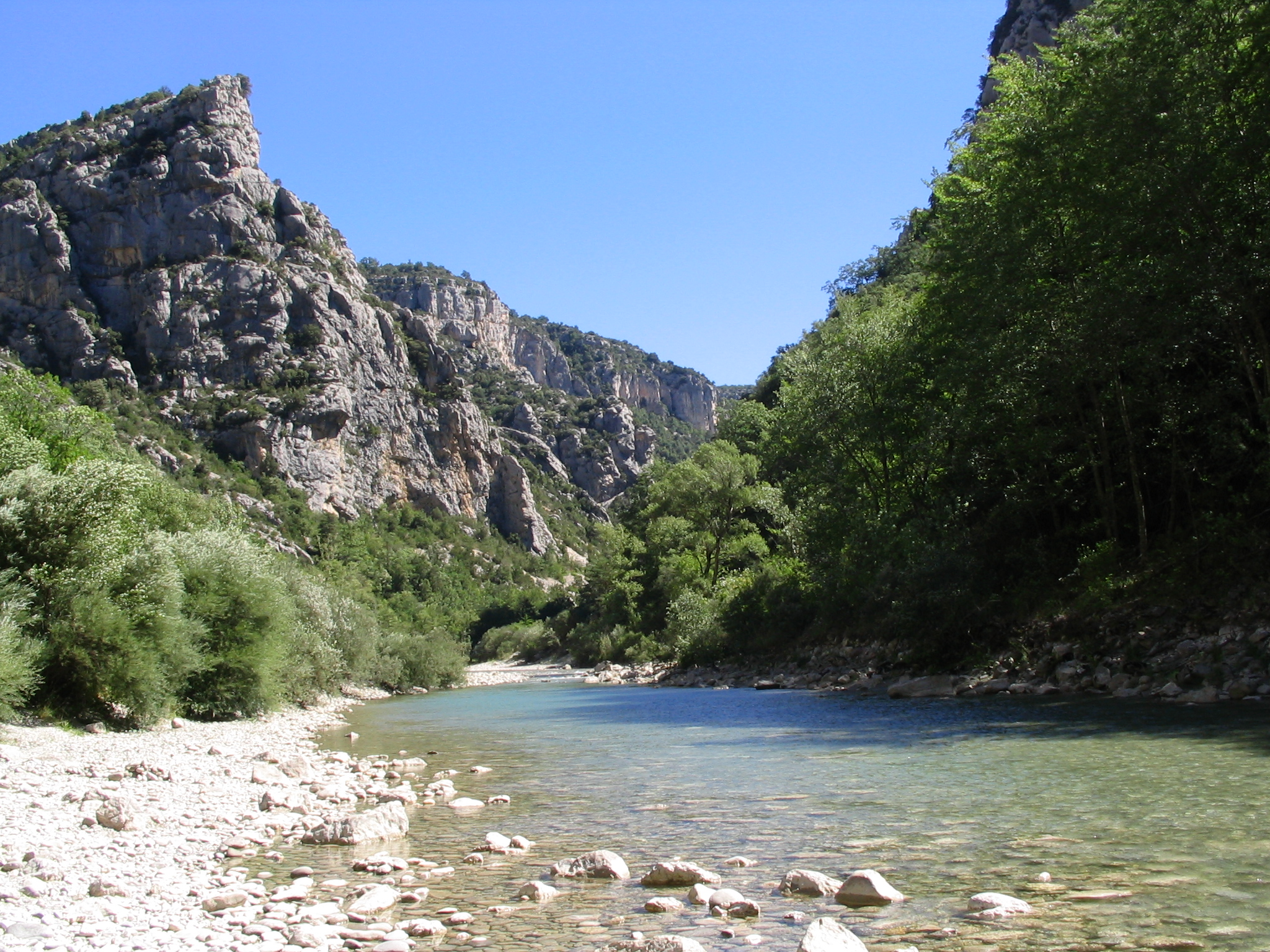 River Verdon, in the Gorges du Verdon, Provence, South France, view from bottom